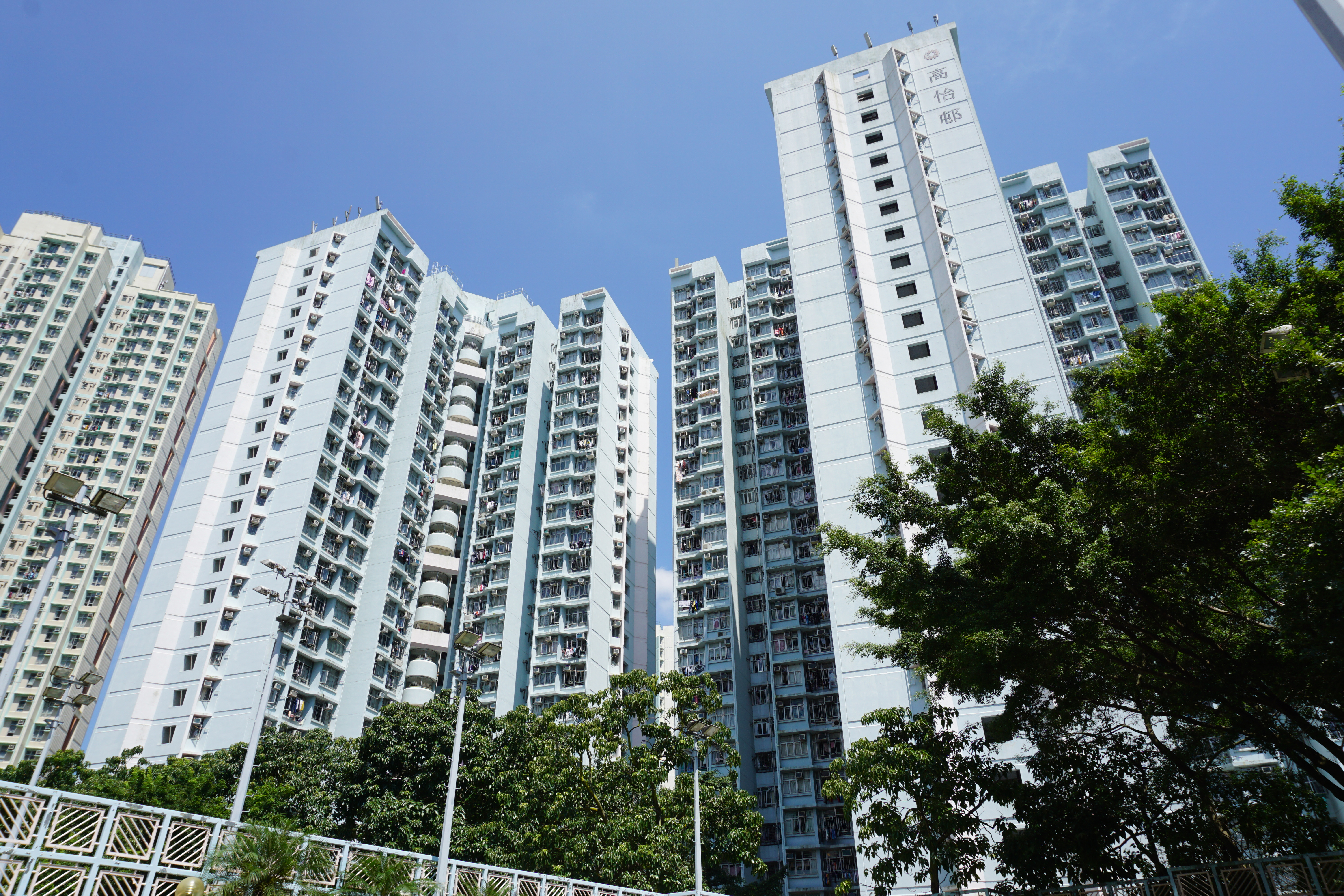 Ko Yee Estate in Yau Tong, Hong Kong.